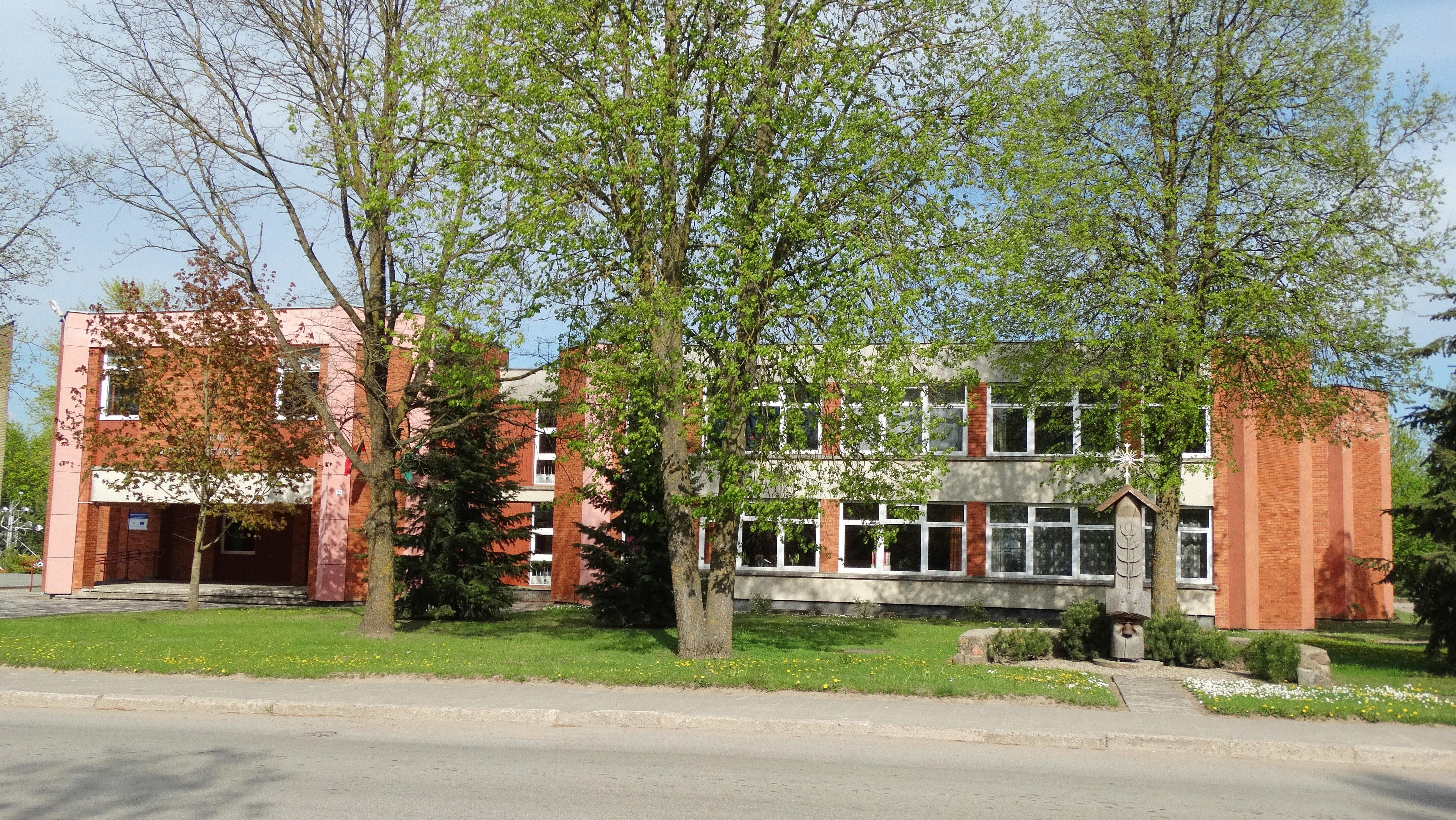 Alksniupiai, school, Radviliškis District, Lithuania